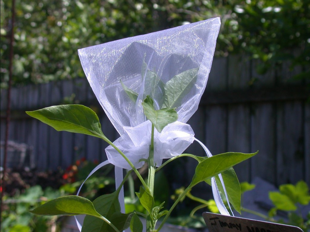 Photos for a seed saving journal describing isolation with organza bags, at Myfolia Organza bag protecting a plant.